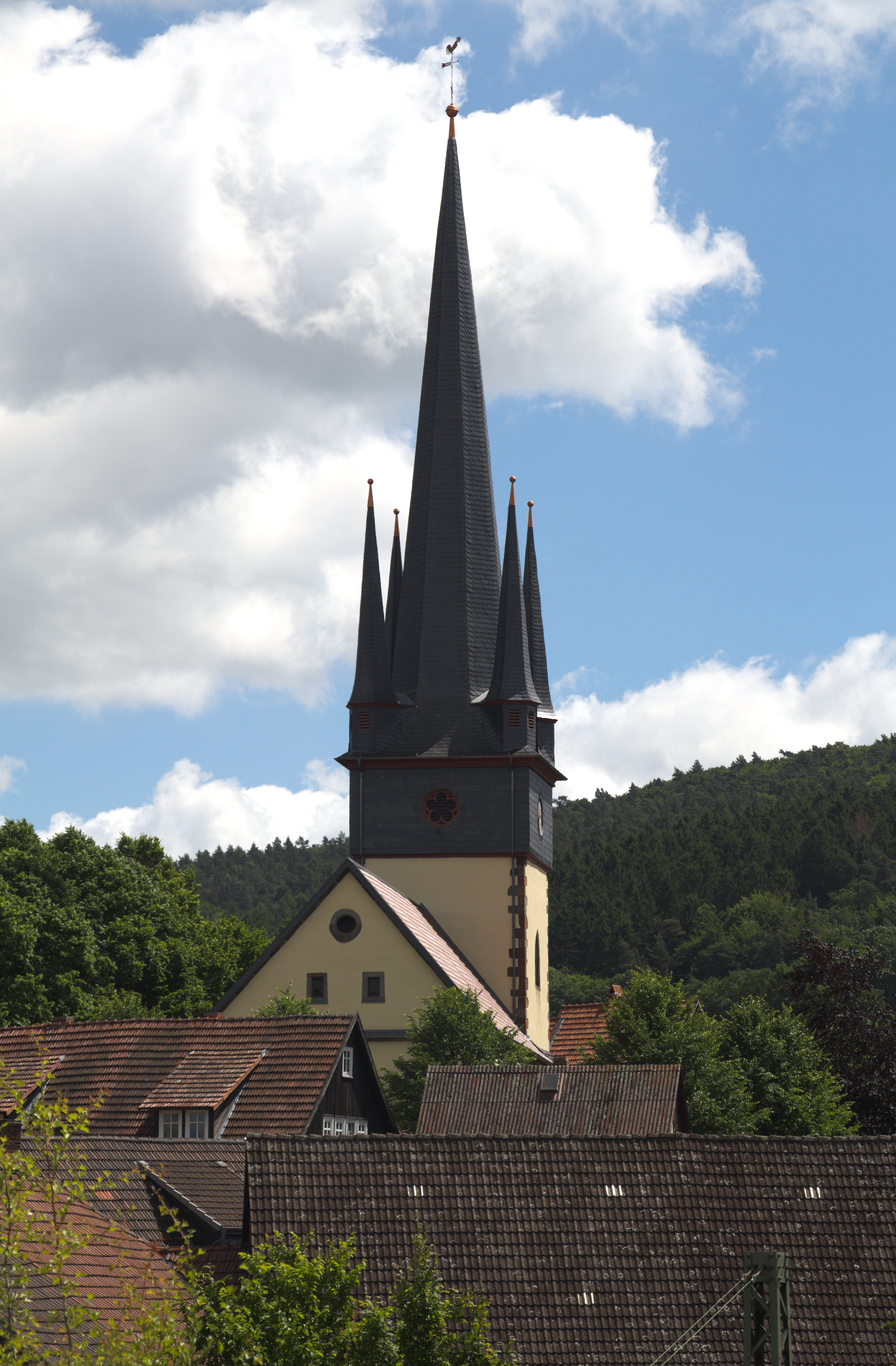 Church (Detail: Steeple) in Neukirchen, Haunetal, Hesse, Germany